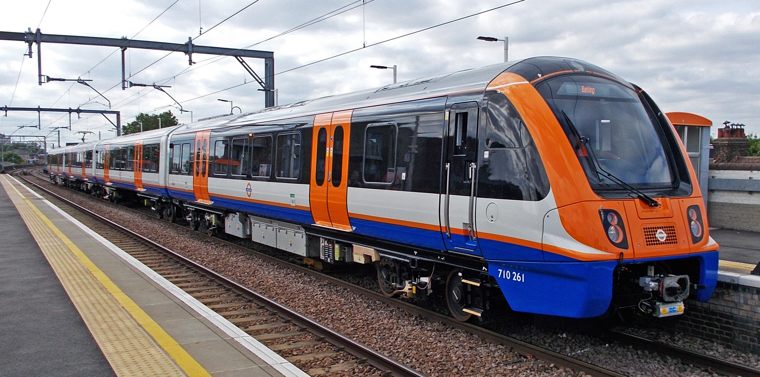 Class 710 unit 710261 calls at Leyton Midland Road with a Barking service on 31st May 2019